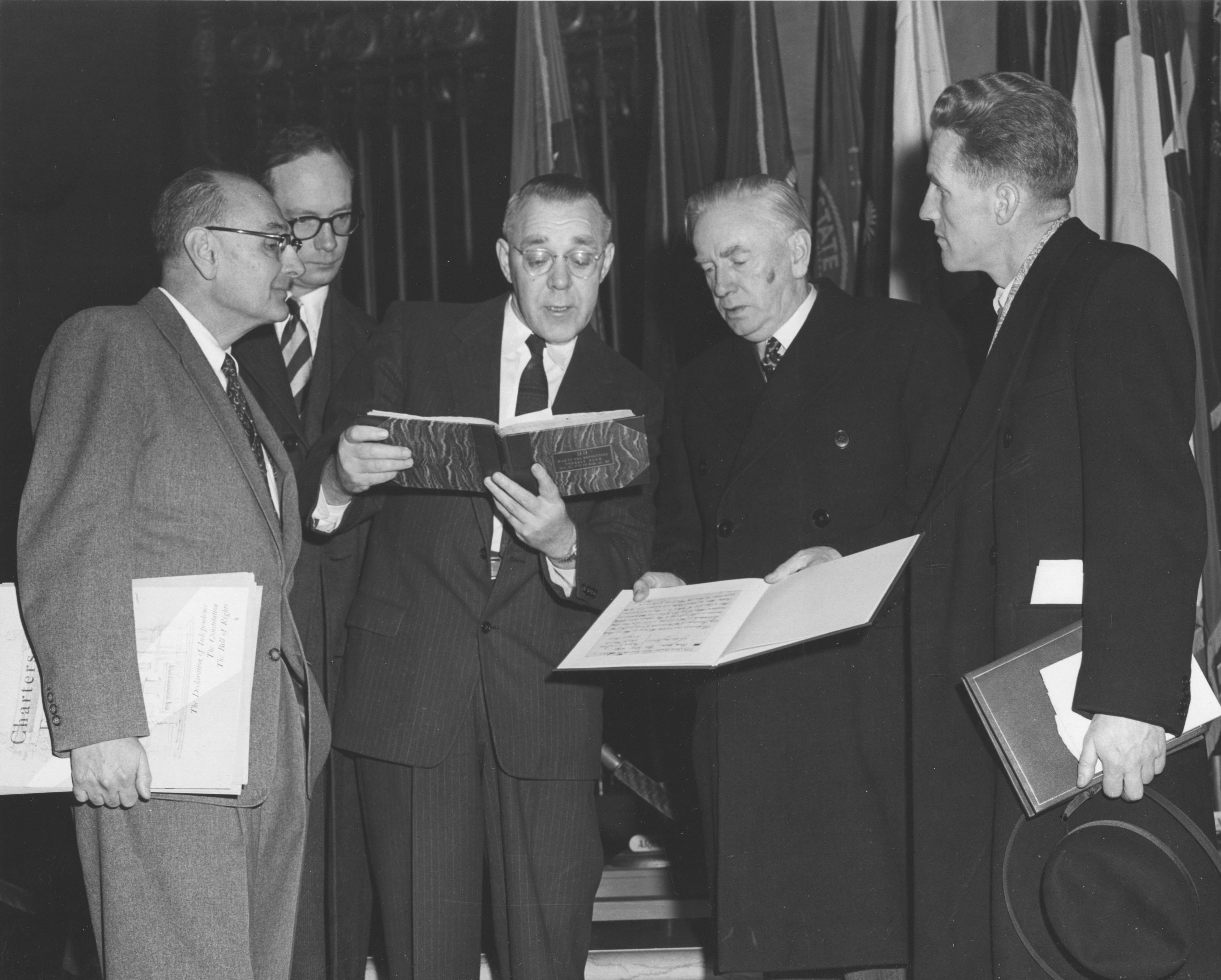 Left to right: Karl Trever, the Hon. Robert Taft, (Actually this looks like William H Taft) Ambassador to Ireland, Dr. Robert H. Bahmer, His Excellency John A. Costello, Prime Minister of Ireland, Alexis Fitzgerald, Secretary to the Prime Minister.